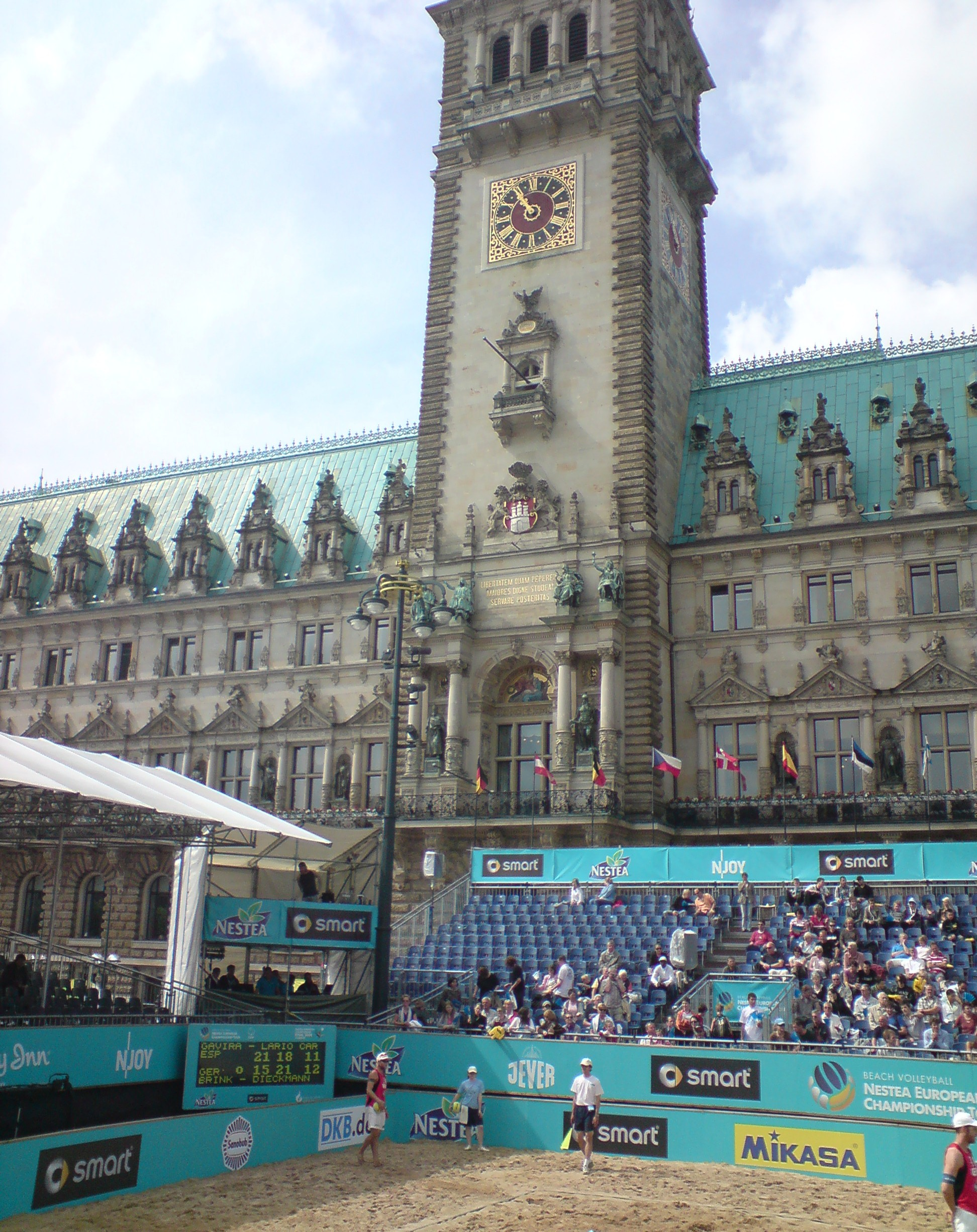 The city hall of Hamburg, Germany.